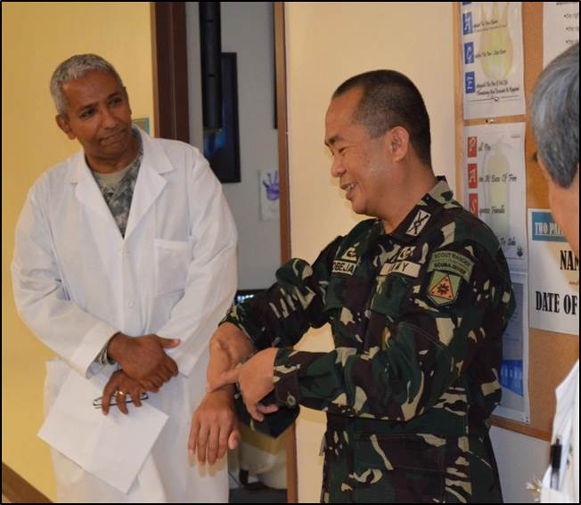 Colonel Cirilito Sobejana AFP at the Tripler Army Medical Center. Col. Sobejana points to his reconstructed right forearm which was treated at TAMC after he sustained gunshot wounds to the arm in combat in 1995.